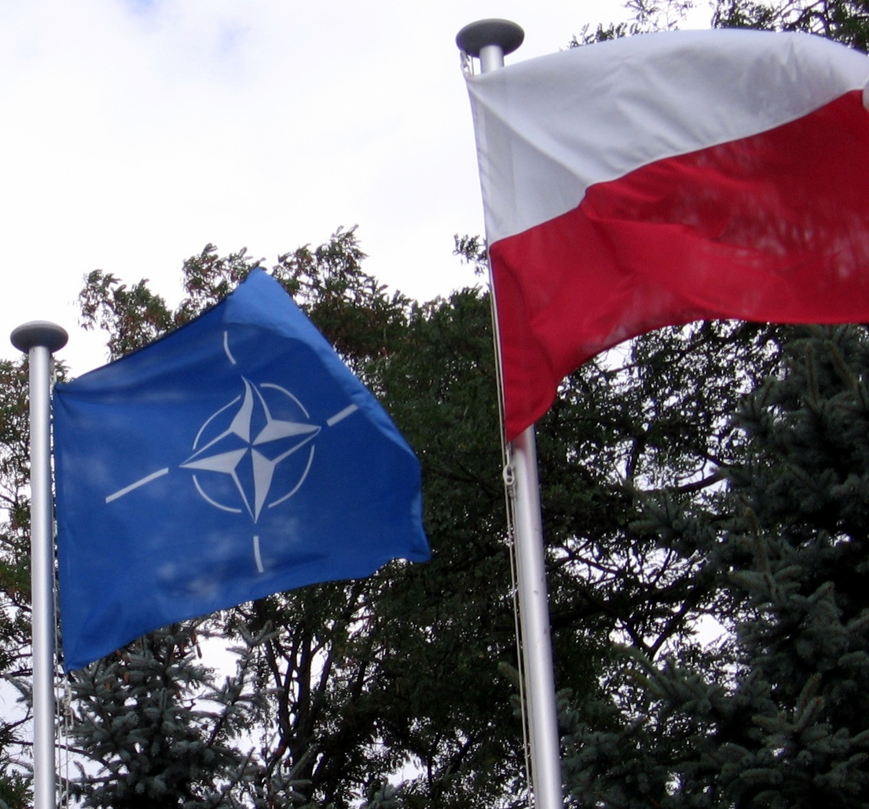 NATO and Polish flag